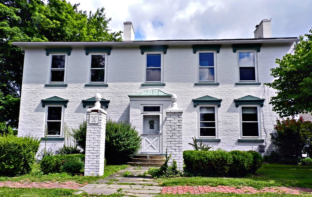 Worthington, Ohio. Built in 1818 when James Monroe (our 5th president) was in office the Federal-style brick house is still in use. Buttles, the builder, was a mason. Some other early owners, community leaders, were Abner Pinney, a merchant and Sidney Brown. a cooper and grocer. The house is on the corner of US23 and Stafford St. I've passed it thousands of times including two trips a day during 12 years of school in Worthington. With a copy of the National Register of Historic Places, I discovered how interesting it is for the first time. That brick sidewalk looks to be the same one I walked while in grade school during the 1930's.